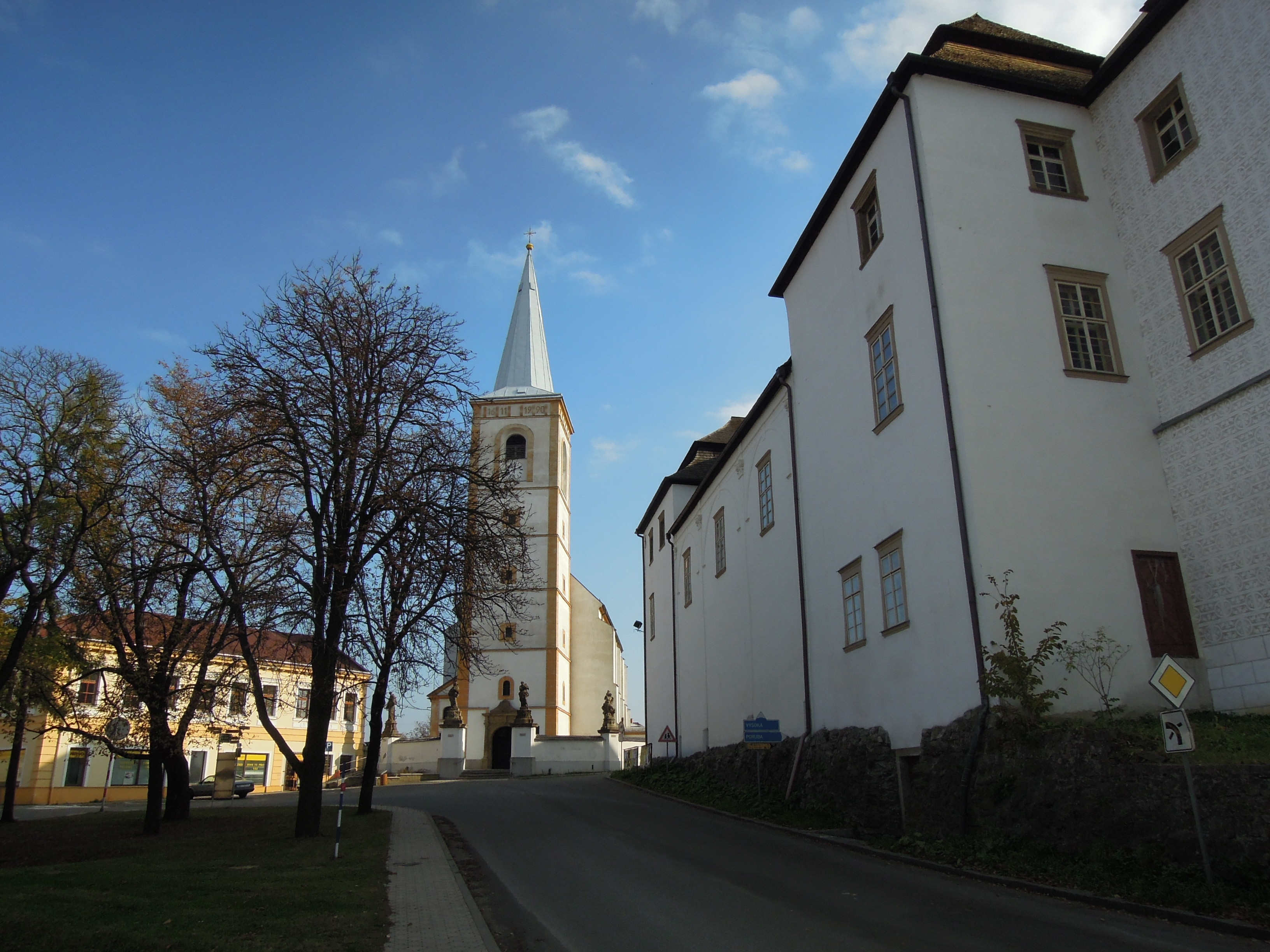 Church and castle in Hustopeče nad Bečvou, Přerov District, Olomouc Region, Czech Republic